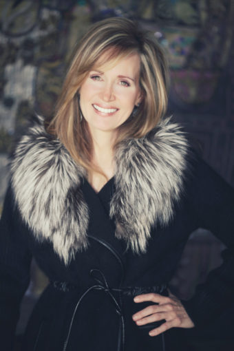 Karen Floyd - Publisher photo for the Winter 2016-2017 issue of Elysian Magazine